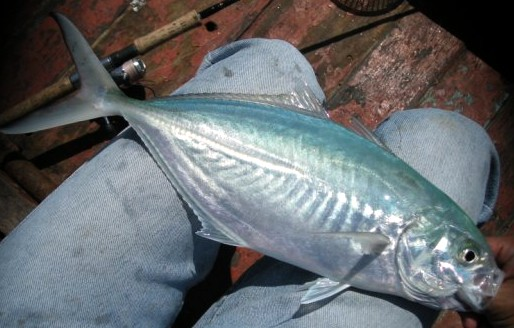 Taken from Broome, WA